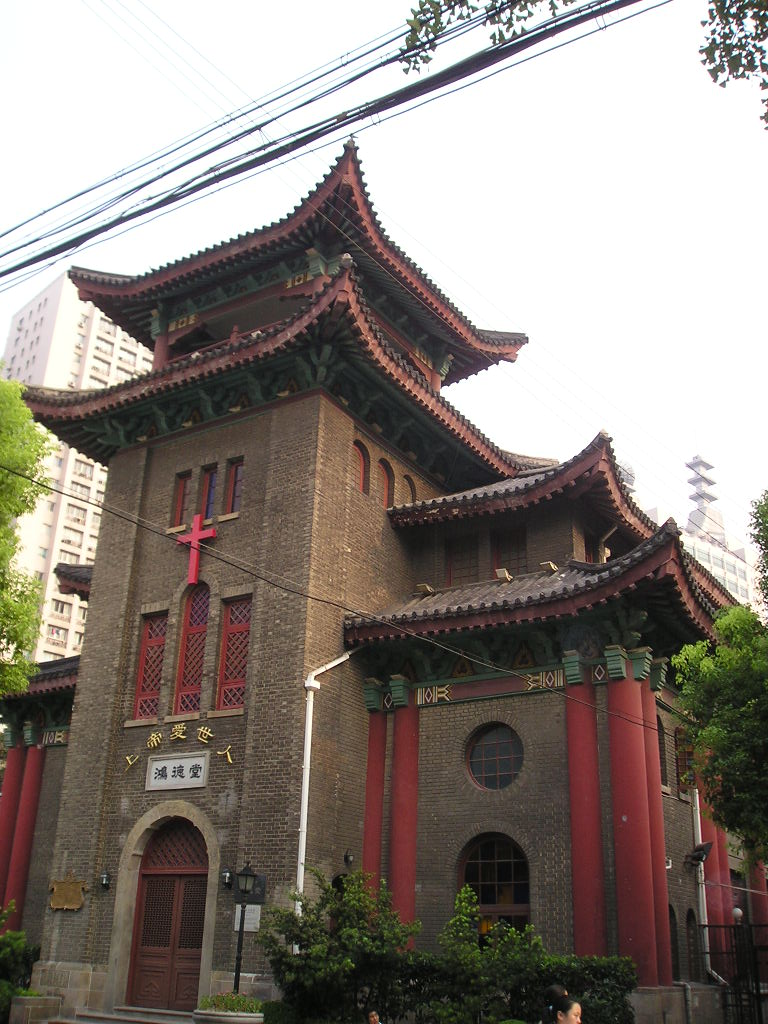 Hongdetang, a church on Duolun Road, Shanghai